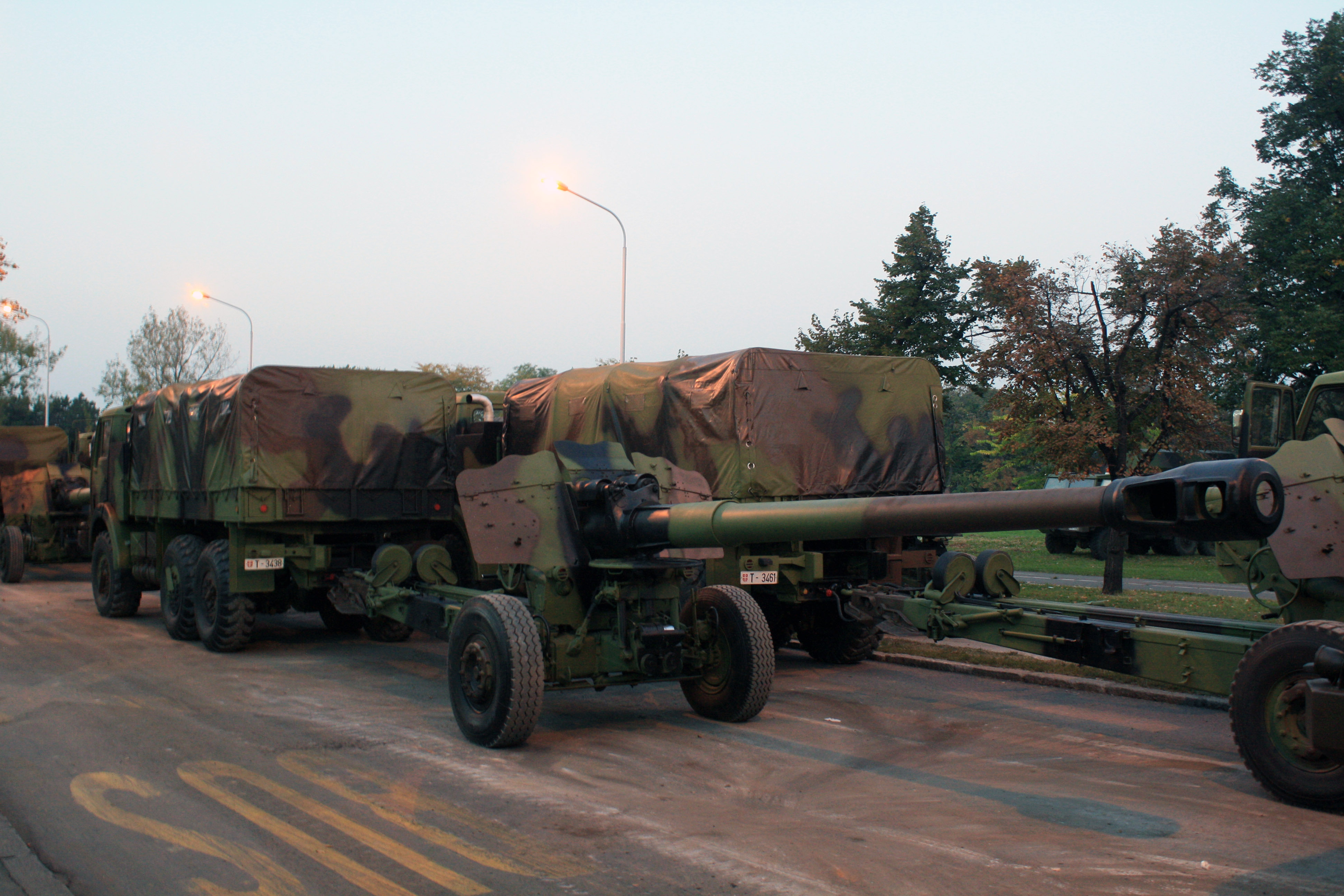 Serbian Army FAP 2026BS/AV 6x6 truck towing M-84 Nora-A 152 mm gun-howitzer, rehearsals for the 2014 Belgrade Liberation Day Parade.